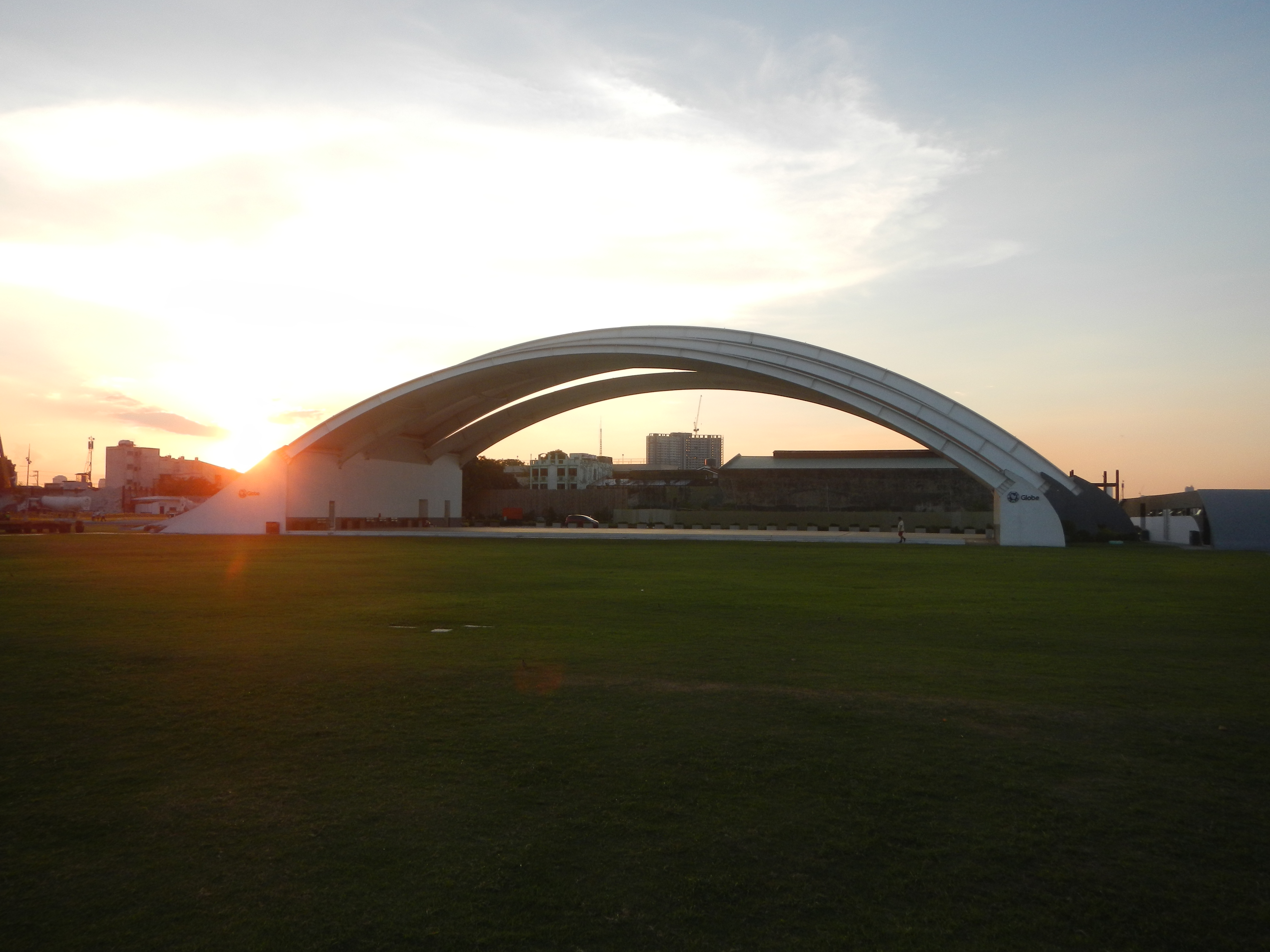 Circuit Makati 14°34'29"N 121°1'9"E Redeveloped Riverfront, Circuit Makati Santiago and Libertad Cua Park, Circuit Makati Globe Circuit Events Ground, Circuit Makati Alveo, Circuit Makati Globe Canopy and Open Grounds, Circuit Theater and the interactive central walkway Carmona, Makati Carmona 14°34'32"N 121°1'6"E Circuit Makati Hippodromo Street corner Theatre Drive to Riverfront Drive, West Gala Drive to South Avenue A. P. Reyes Street Sapote Street Ayala Malls Ayala Malls Circuit Power Mac Center Spotlight Mountain Dew Skate Park Blue Pitch City Kart Racing PMC Spotlight The Stiles Enterprise Plaza Solstice Performing Arts Theater Seda Hotel Circuit Lane Makati Development Corporation Circuit Corporate Center by Alveo, Ayala Land Makati Central Business District from J.P. Rizal Avenue Makati Central Business District (Downtown Makati) 14°33'21"N 121°1'16"E List of barangays of Metro Manila, Legislative districts of Makati, Barangay Carmona, Makati Carmona 14°34'32"N 121°1'6"E Valenzuela 14°34'12"N 121°1'27"E Olympia 14°34'19"N 121°1'11"E Tejeros 14°34'18"N 121°0'48"E Kasilawan 14°34'38"N 121°0'54"E Makati City (Note: Judge Florentino Floro, the owner, to repeat, Donor Florentino Floro of all these photos hereby donate gratuitously, freely and unconditionally all these photos to and for Wikimedia Commons, exclusively, for public use of the public domain, and again without any condition whatsoever).